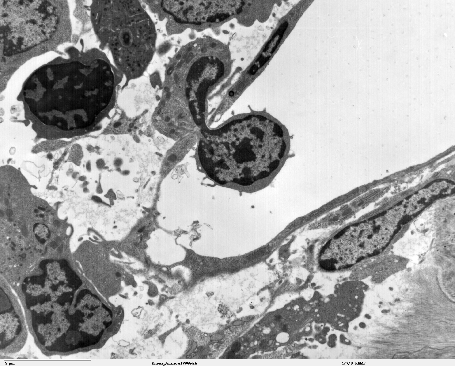 Transmission electron micrscope image of a thin section cut through an area of bone marrow area near the cartilage/bone interface in a mouse kneecap. Image shows small opening in the thin endotheliun of the vascular sinus wall, where a blood cell is crossing the thin vascular sinus wall and into the sinus lumen. JEOL 100CX TEM